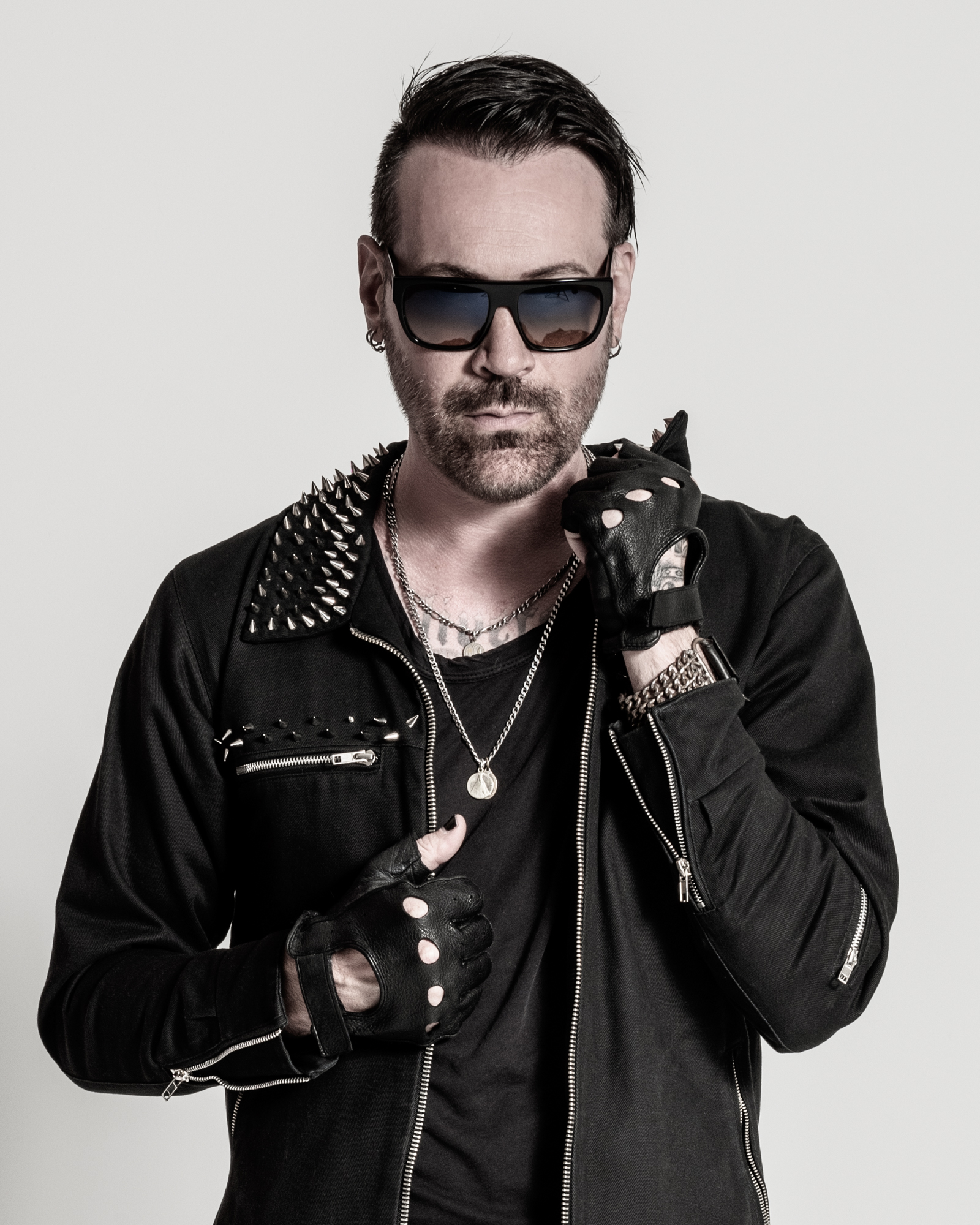 Studio Photo of Ryan Shuck - 2019